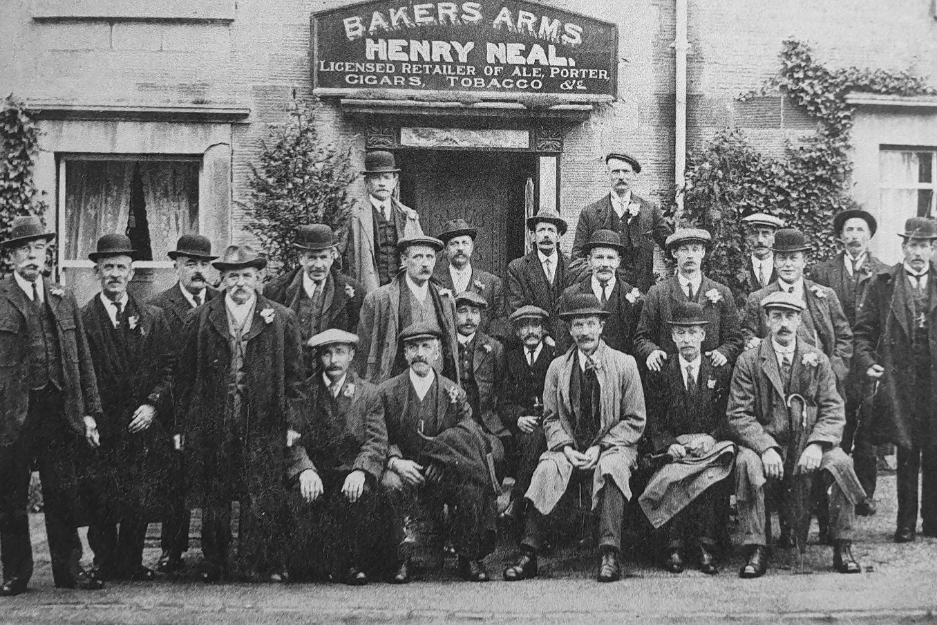 Bakers Arms in Higher Buxton